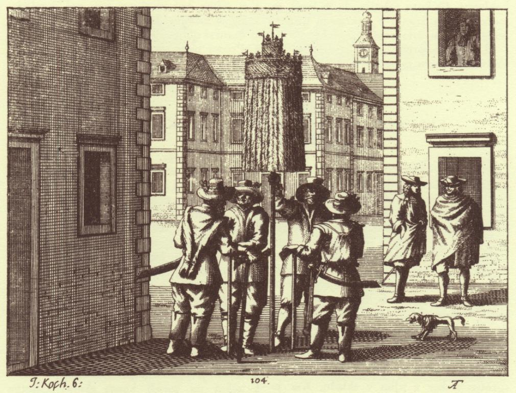 Carol-singing men on a square in Ljubljana. One of them holds a bundle of candles on a stand. This kind of candle lantern is known as 'stavnica' in Slovene (see Candle-pole).[1] Technique: Copper engraving.